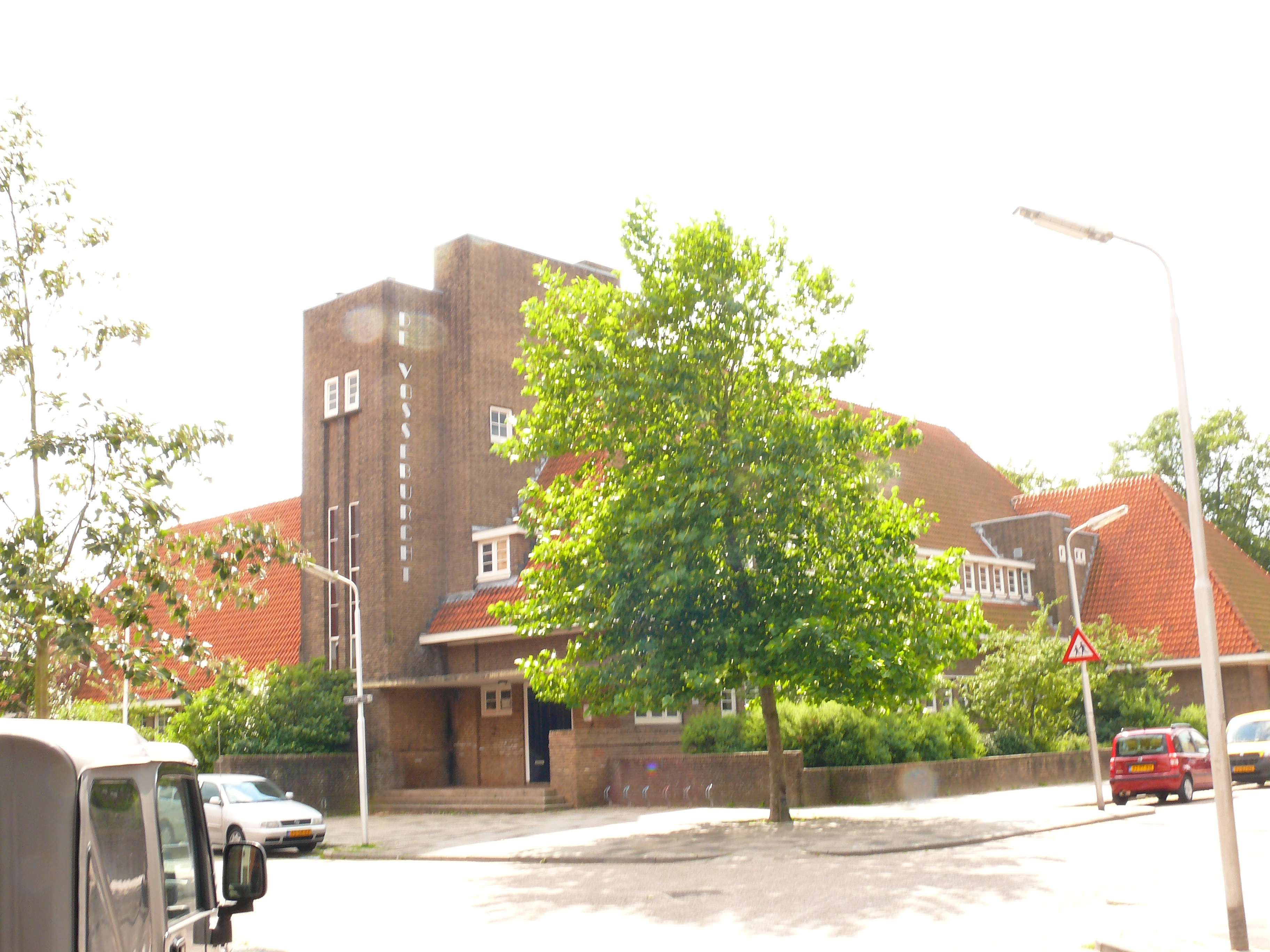 A school named "OBS de Vosseburcht" in Leeuwarden.